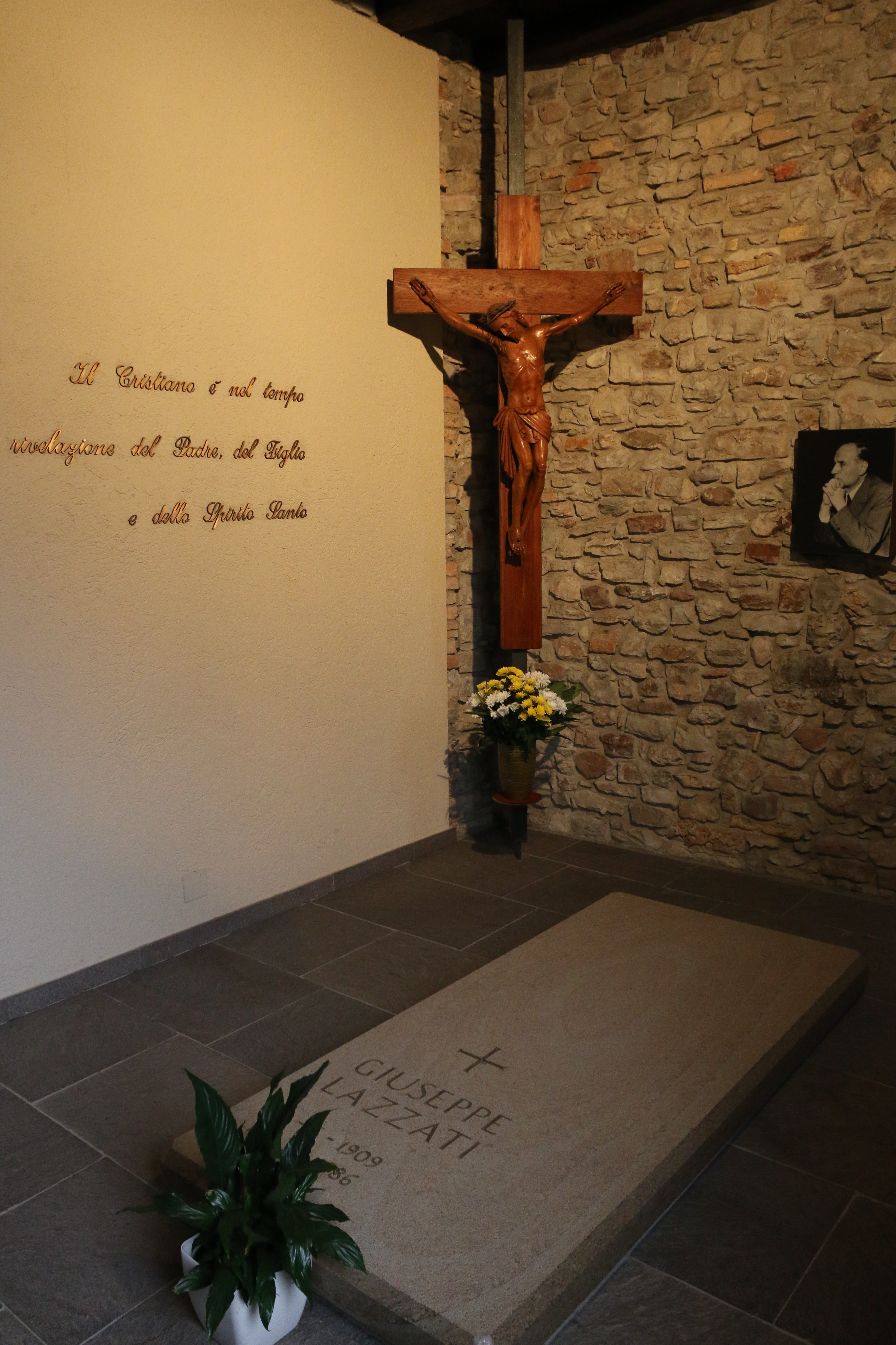 The tomb of Giuseppe Lazzati in the Hermitage San Salvatore, locations Crevenna, Erba (CO), Italy